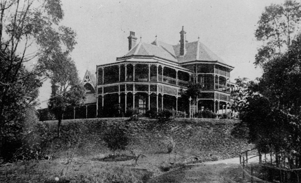 Kirkston, an imposing residence at Windsor, 1931. Kirkston, 23 Rupert Street, Windsor, is the work of architect G. H. M. Addison and builder John William Young. This sprawling two-storeyed brick residence was constructed in 1888-1889 for John Henry Flower, a Brisbane solicitor and co-founder of the legal firm Flower & Hart. The name of the house was derived from that of Flower's wife, Dora Kirk.The only time it has not been a private residence was during World War Two when Kirkston was used by American military intelligence. See also Courier Mail, 12 October 1944, p. 4. (Description supplied with photograph).